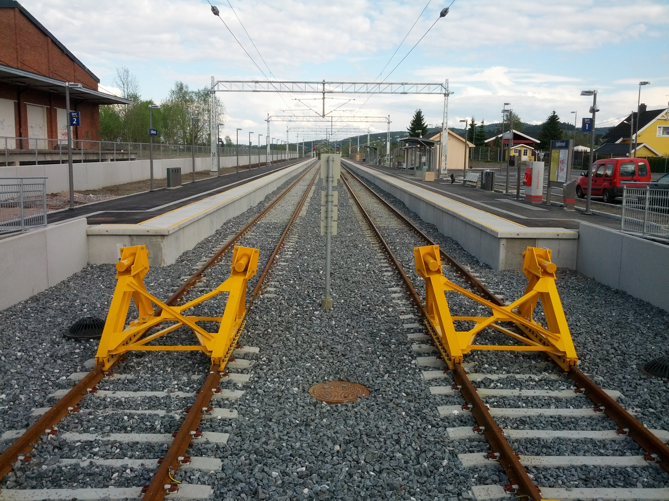 Spikkestad train station